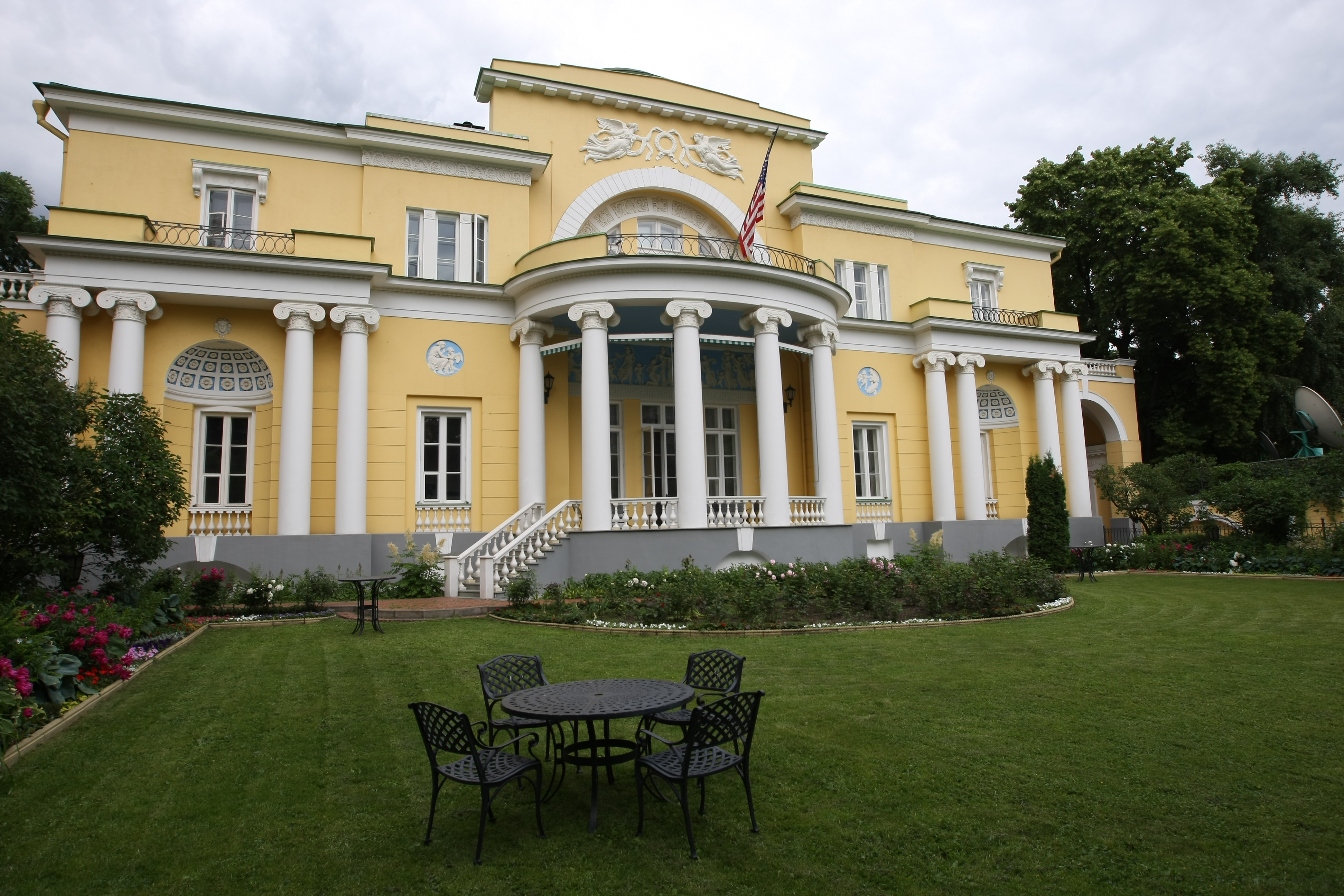 Exterior of Spaso House, residence of U.S. Ambassador in Moscow, Russian Federation. (built 1913).